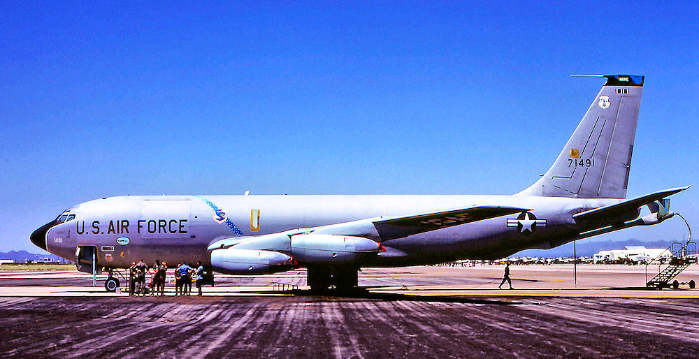 132d Air Refueling Squadron - Boeing KC-135A-BN Stratotanker 57-1491 in SAC markings, about 1980. Aircraft later converted to KC-135E about 1984. Reitred to AMARC as CA0195 Mar 2008